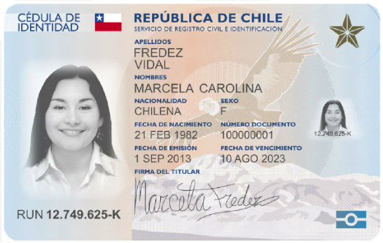 Identification card of Chile from 2013.